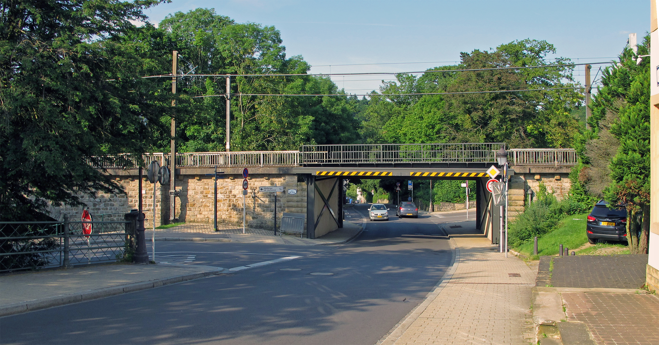 Railway bridge over the Montée de Clausen in Luxembourg